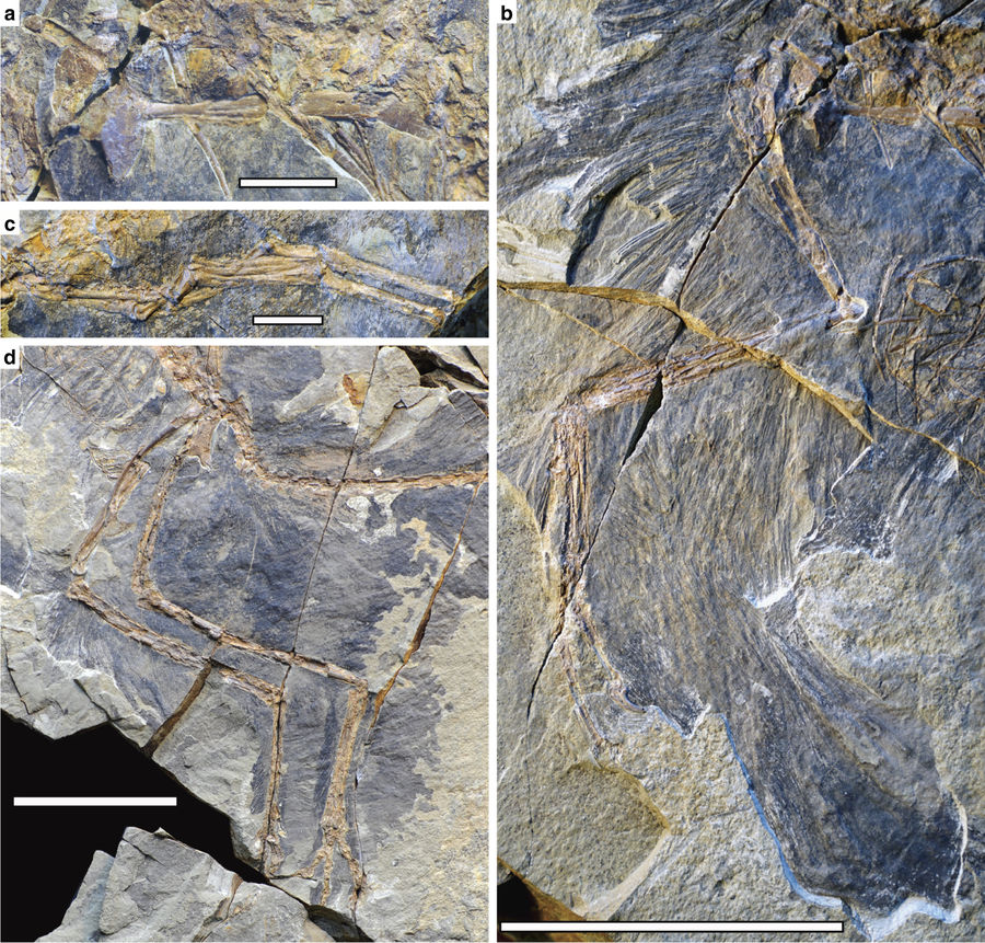 Photographs of the pectoral girdle and limbs of Caihong juji. a Right scapula and coracoid in medial and proximal views; b right forelimb; c left manus; d left and right hind limbs. Scale bar: 1 cm in a, c, and 5 cm in b, d